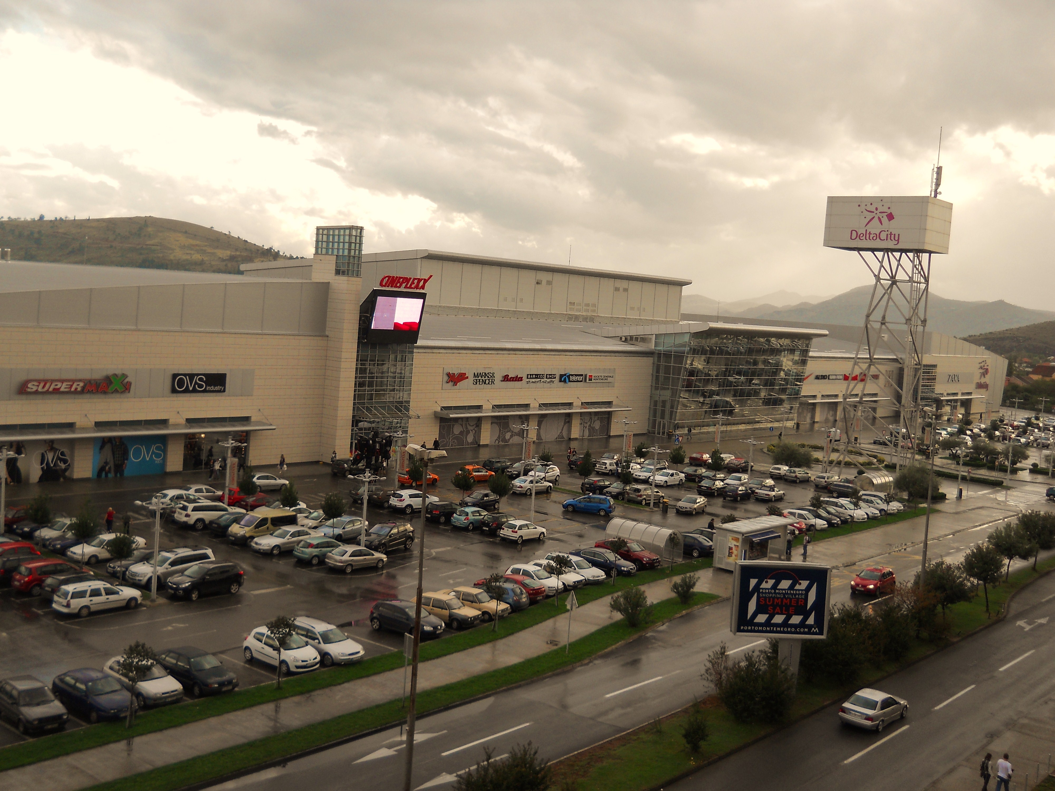 Delta City